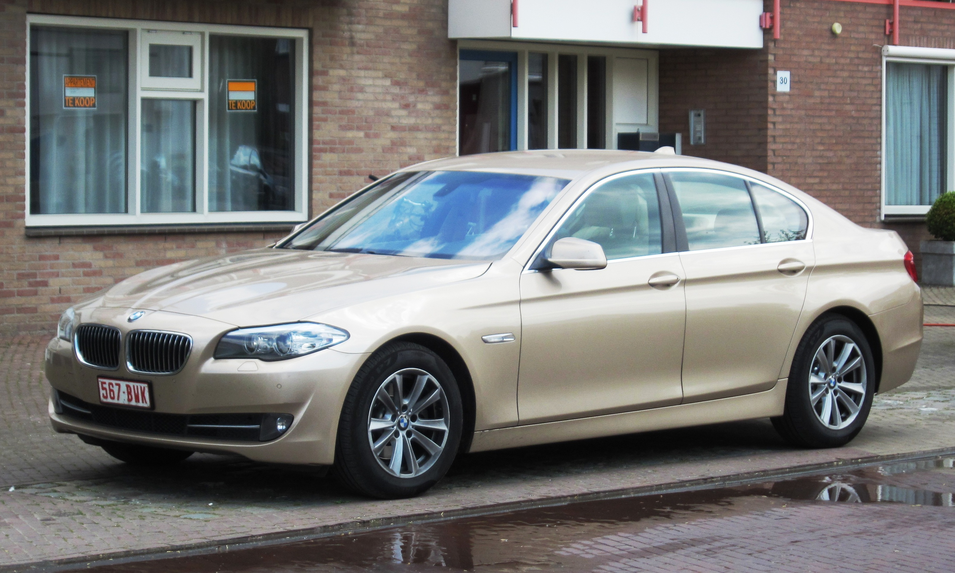 BMW 520d